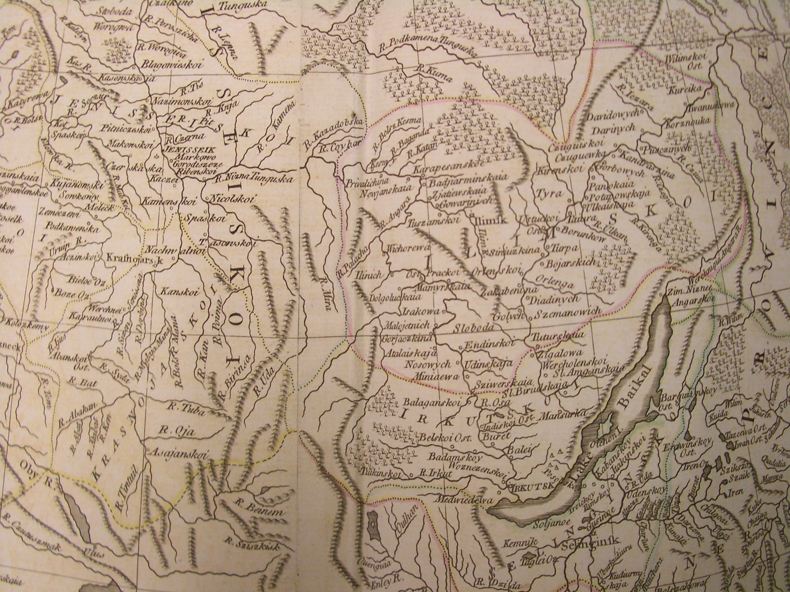 A fragment of the map of Russian Empire (pages 21-22), said to be based on d'Anville's work, in Thomas Kithen's "Atlas describing the Whole Universe"